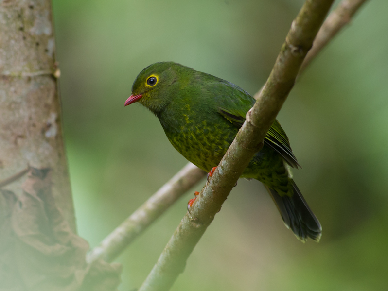 Pipreola intermedia, Band-tailed Fruiteater